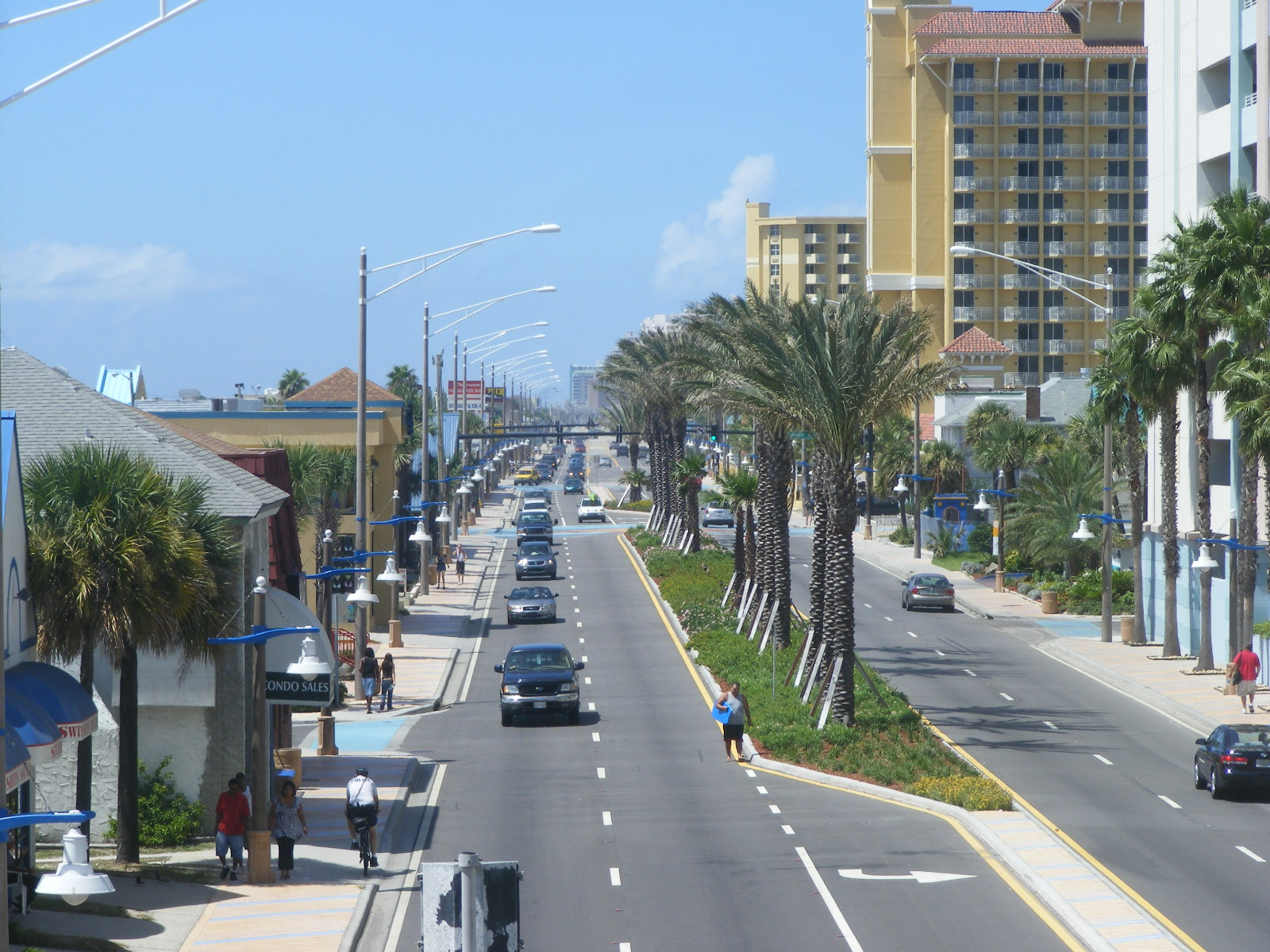 View of Daytona Beach, North on Highway A1A, photo taken from Ocean Walk Pedestrian Bridge. A1A was half of the track for the Daytona Beach Road Course.